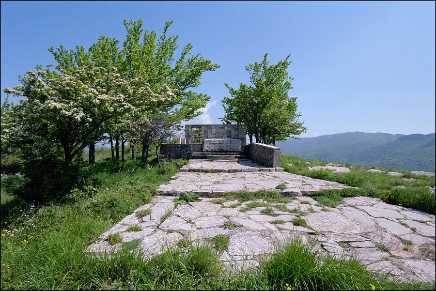 tomb